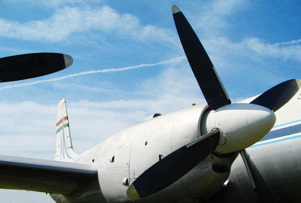 Motor of IL-18 MALÉV Hungarian Airlines